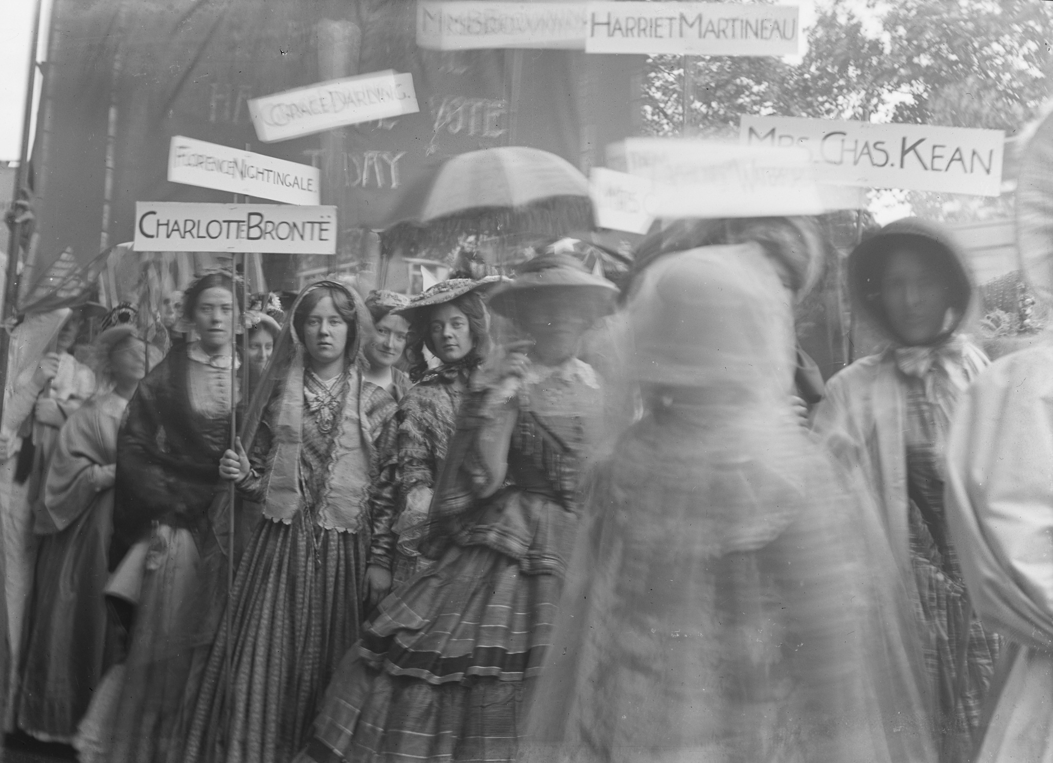 Photographs by Christina Broom who died in 1939. See file name for subject.